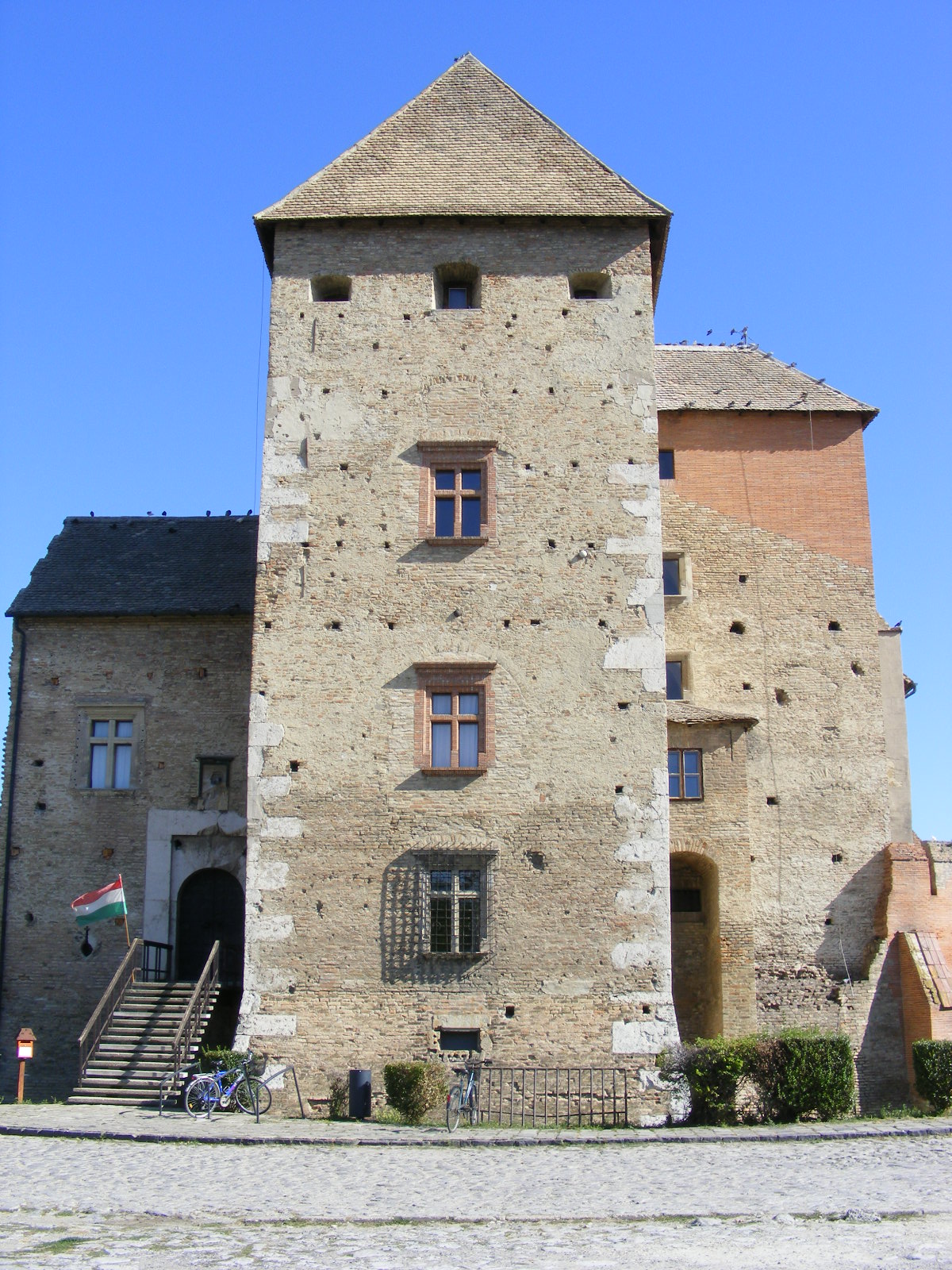 This is a photo of a monument in Hungary. Identifier: 8725